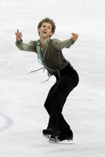 Adam Rippon at the 2010 World Championships.